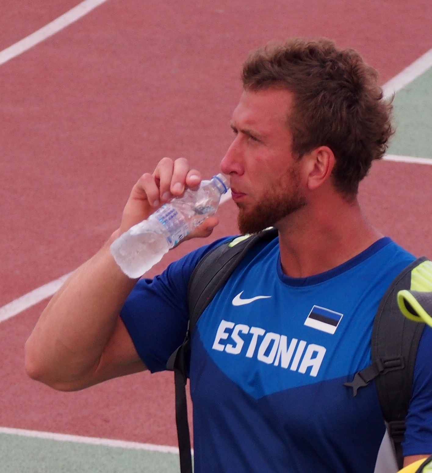 Martin Kupper after the end of the discus throwing event at 2015 European Team Championships First League